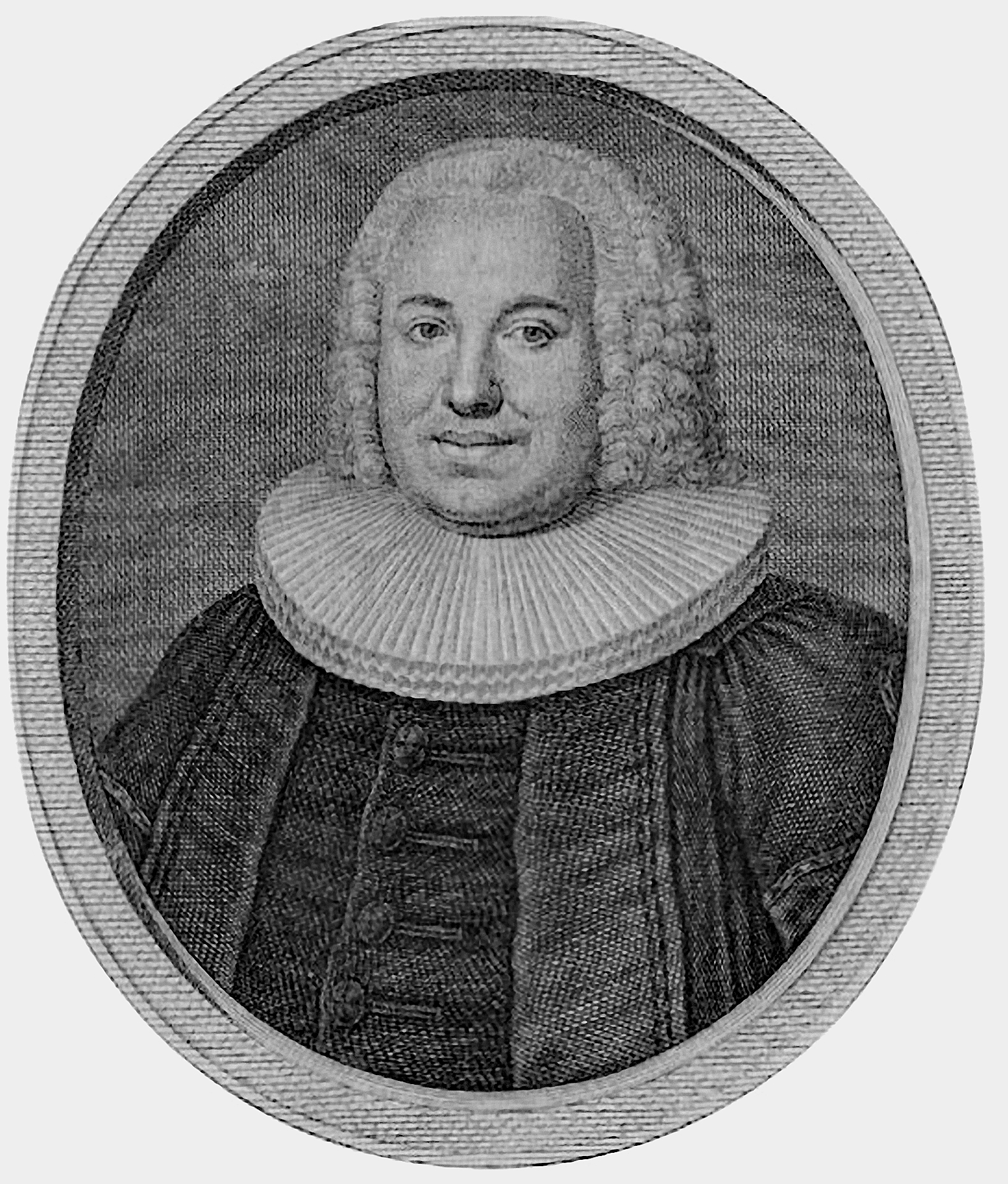 Adam Struensee (1708-1791) Protestant theologian from Germany